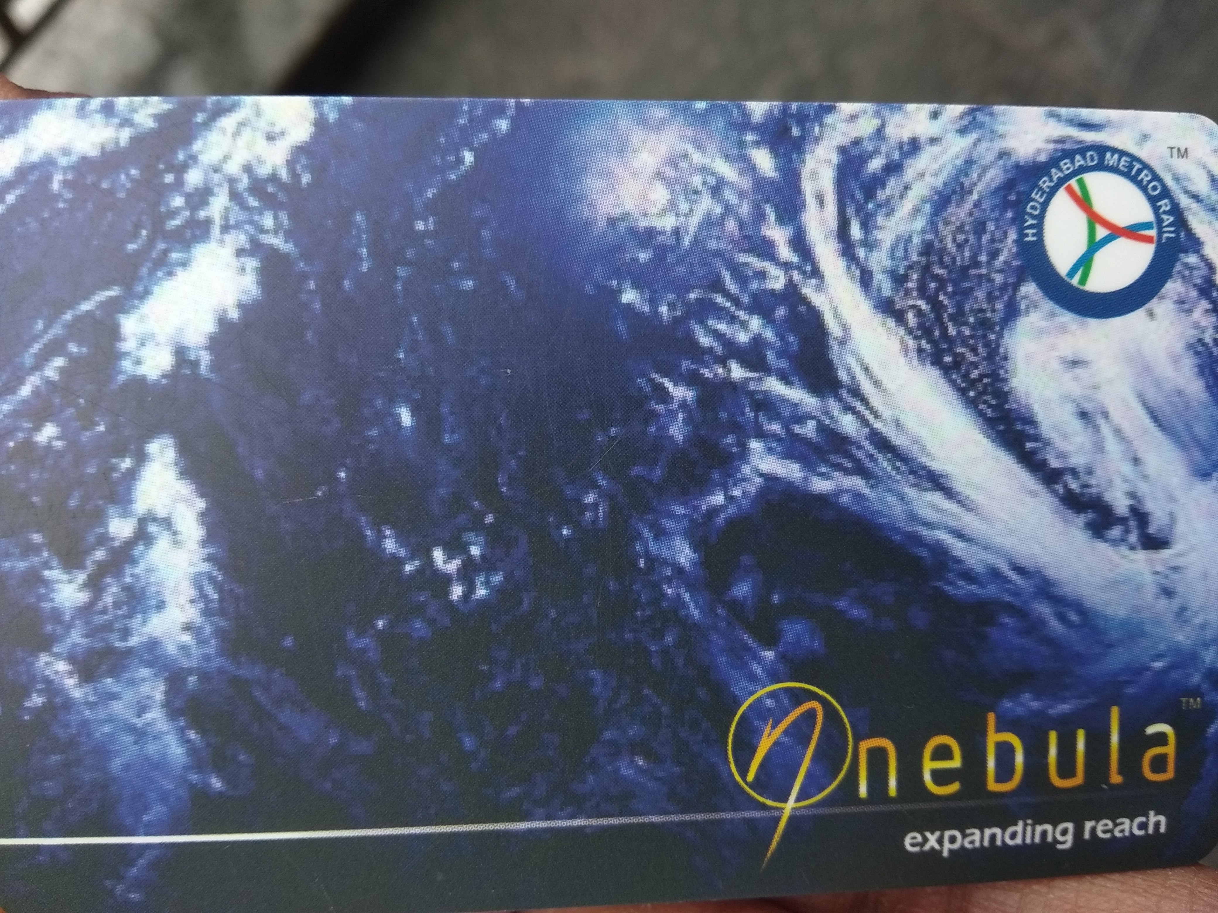 Hyderabadmetrosmartcardnebula